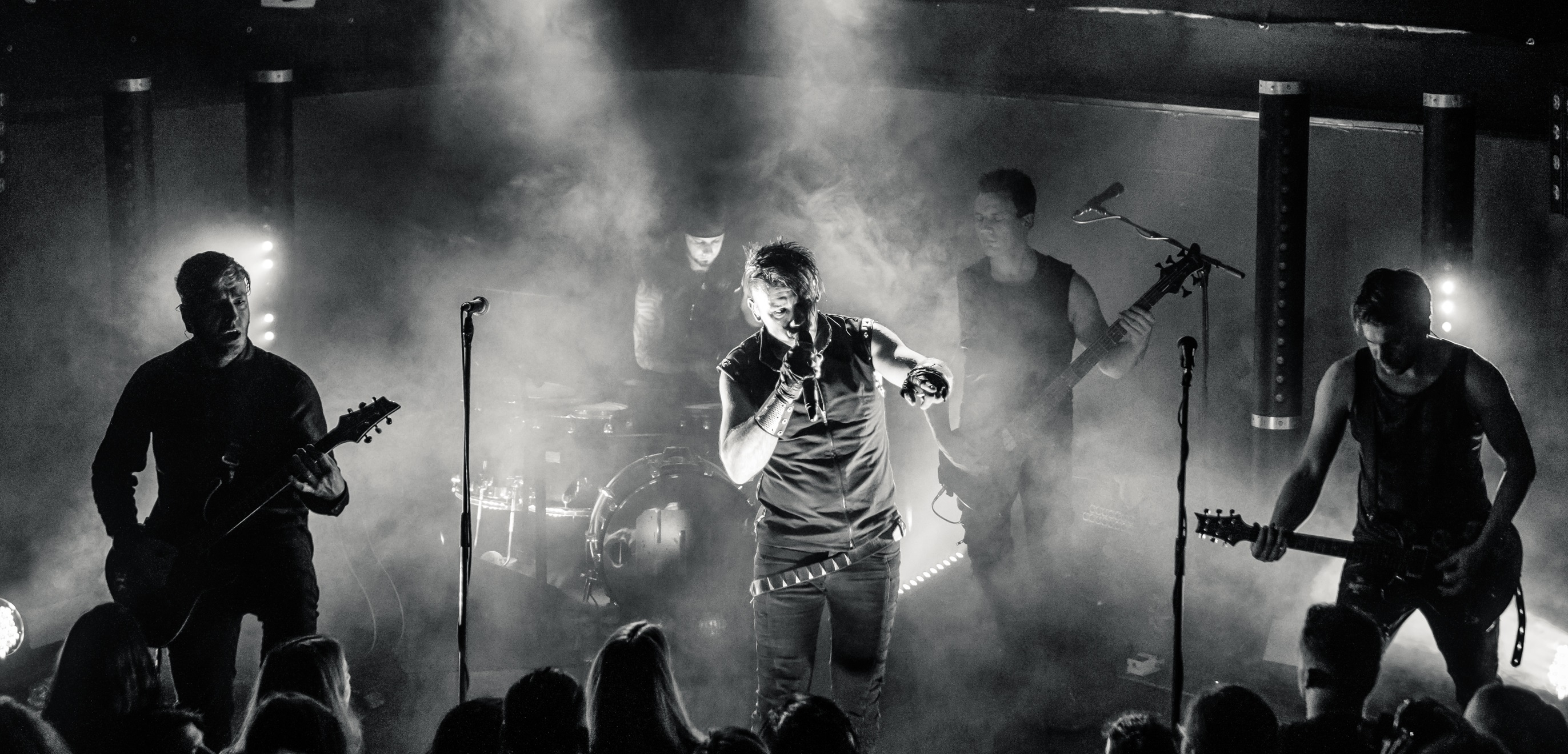 Heldmaschine in Bochum on 18th of November 2015.